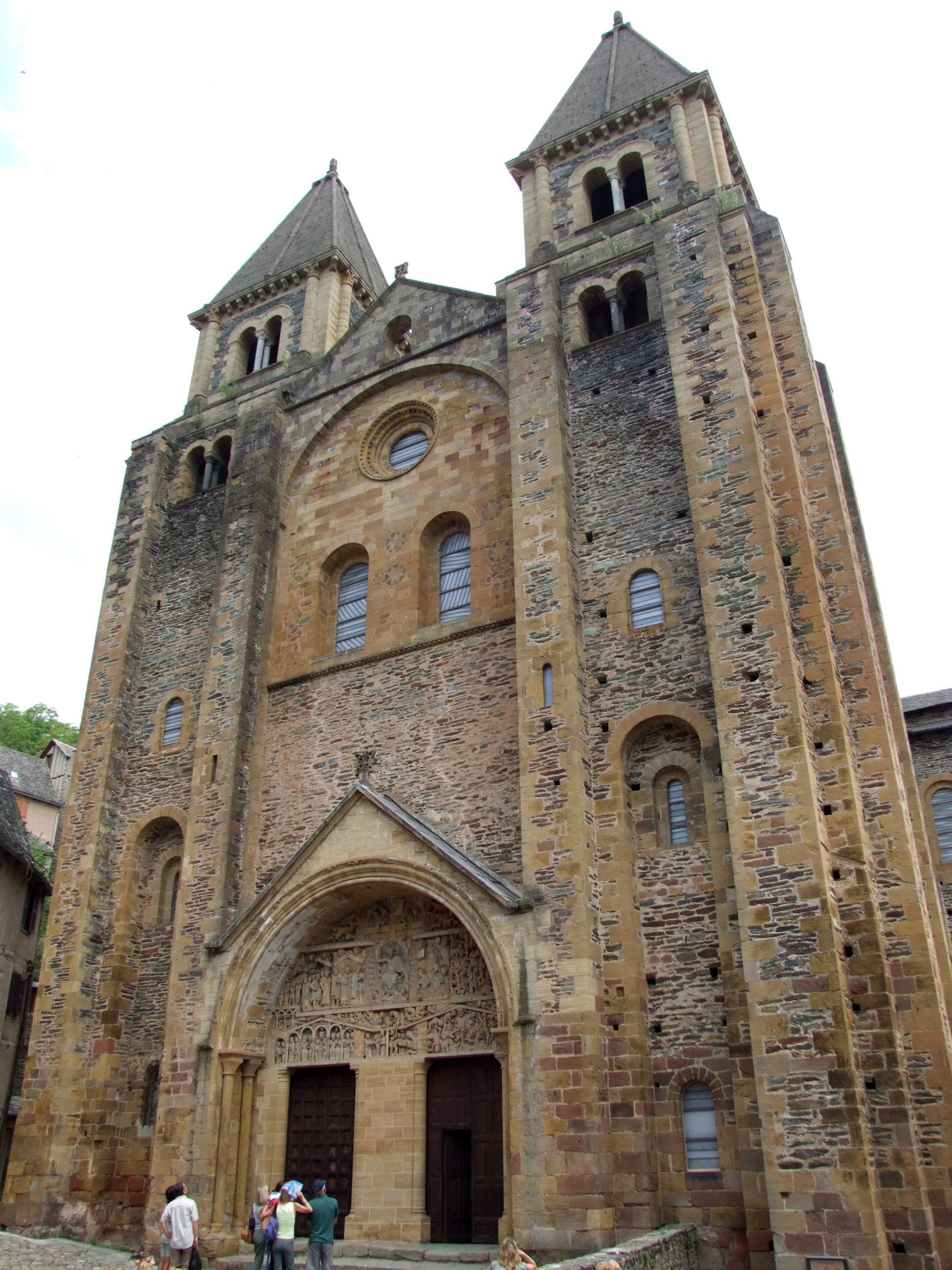 Conques, Aveyron, FRANCE